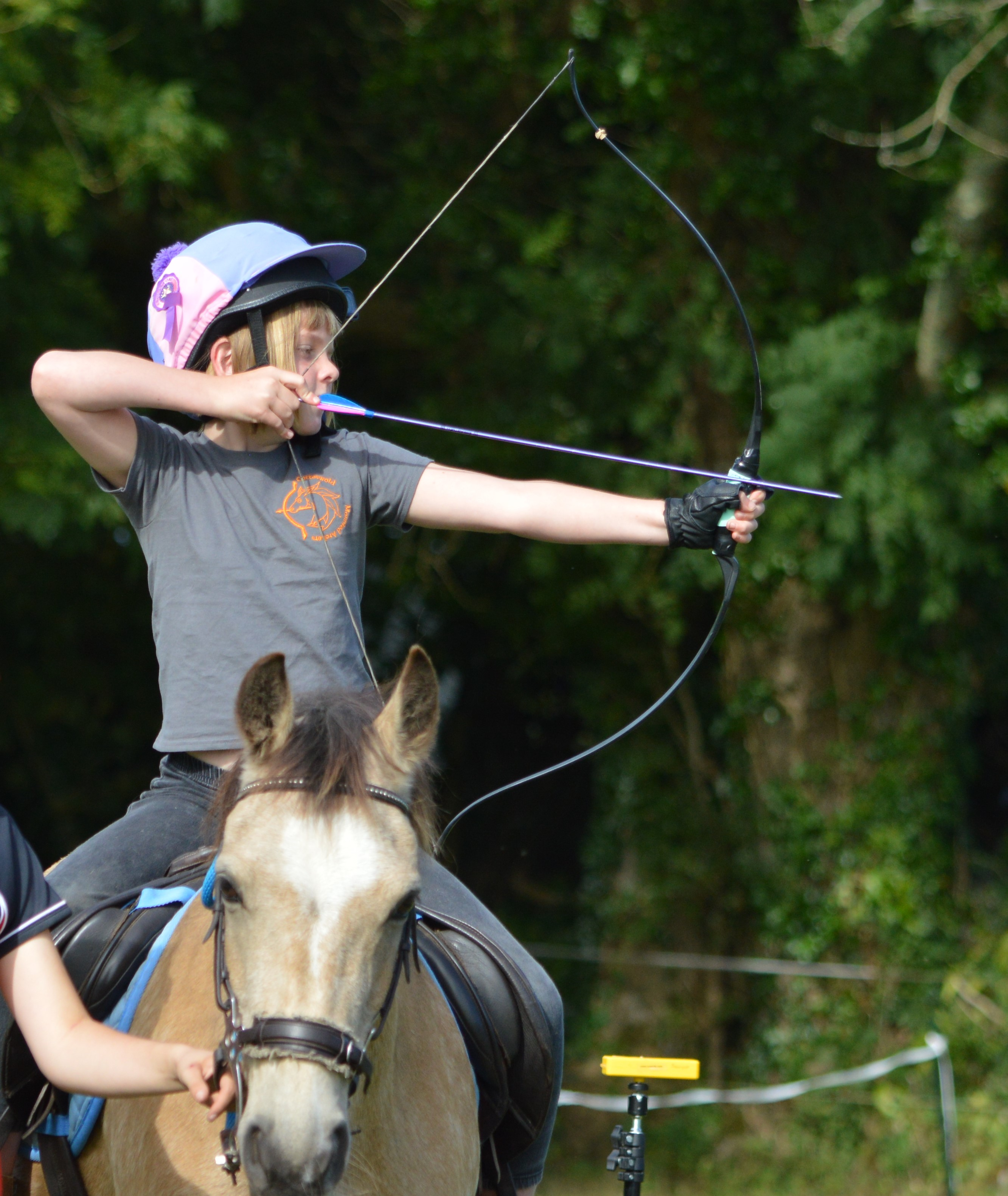 A junior member shooting at the BHAANationals 2016.